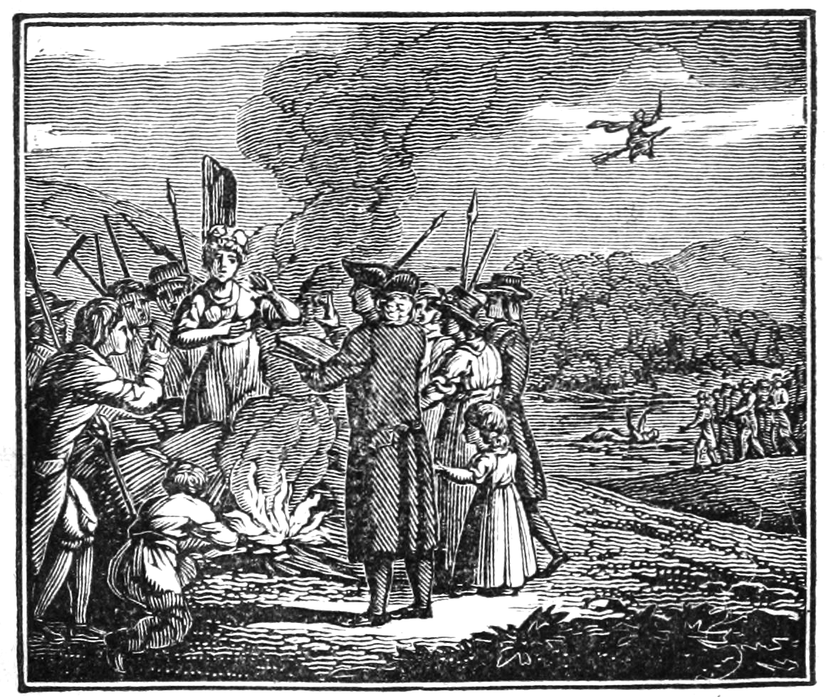 Nineteenth-century illustration of colonial-era witch hysteria (including a witch flying on a broomstick)